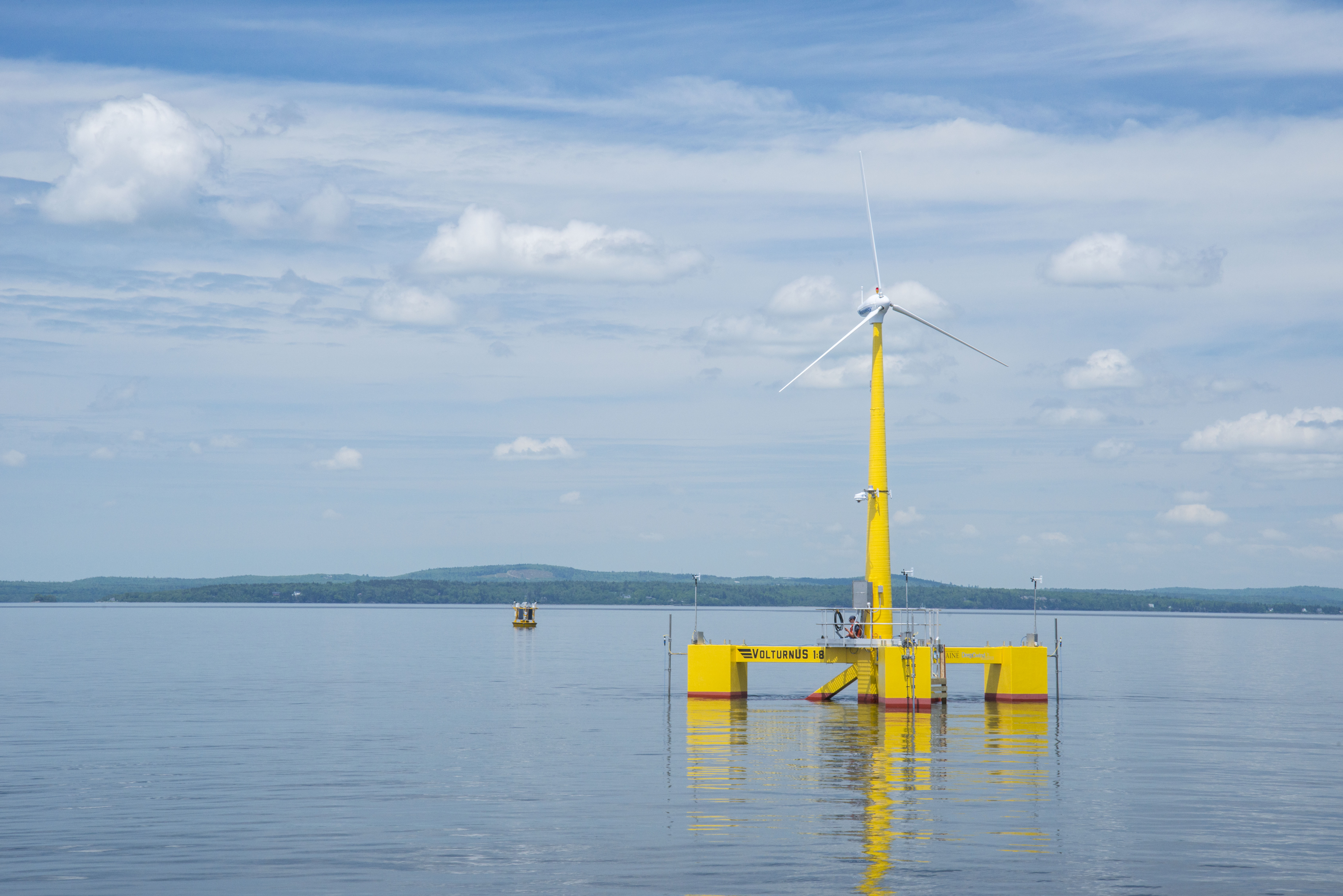 The patent-pending VolturnUS 1:8, was designed and built at UMaine, assembled at Cianbro’s facility in Brewer, successfully towed nearly 30 miles from Brewer by a Maine Maritime Academy tugboat, and anchored for testing off the coast of Castine, Maine in 90 ft of water. On June 13, 2013, the turbine was energized and began delivering electricity through an undersea cable to the Central Maine Power electricity grid, making VolturnUS 1:8 the first grid-connected offshore wind turbine in the Americas.